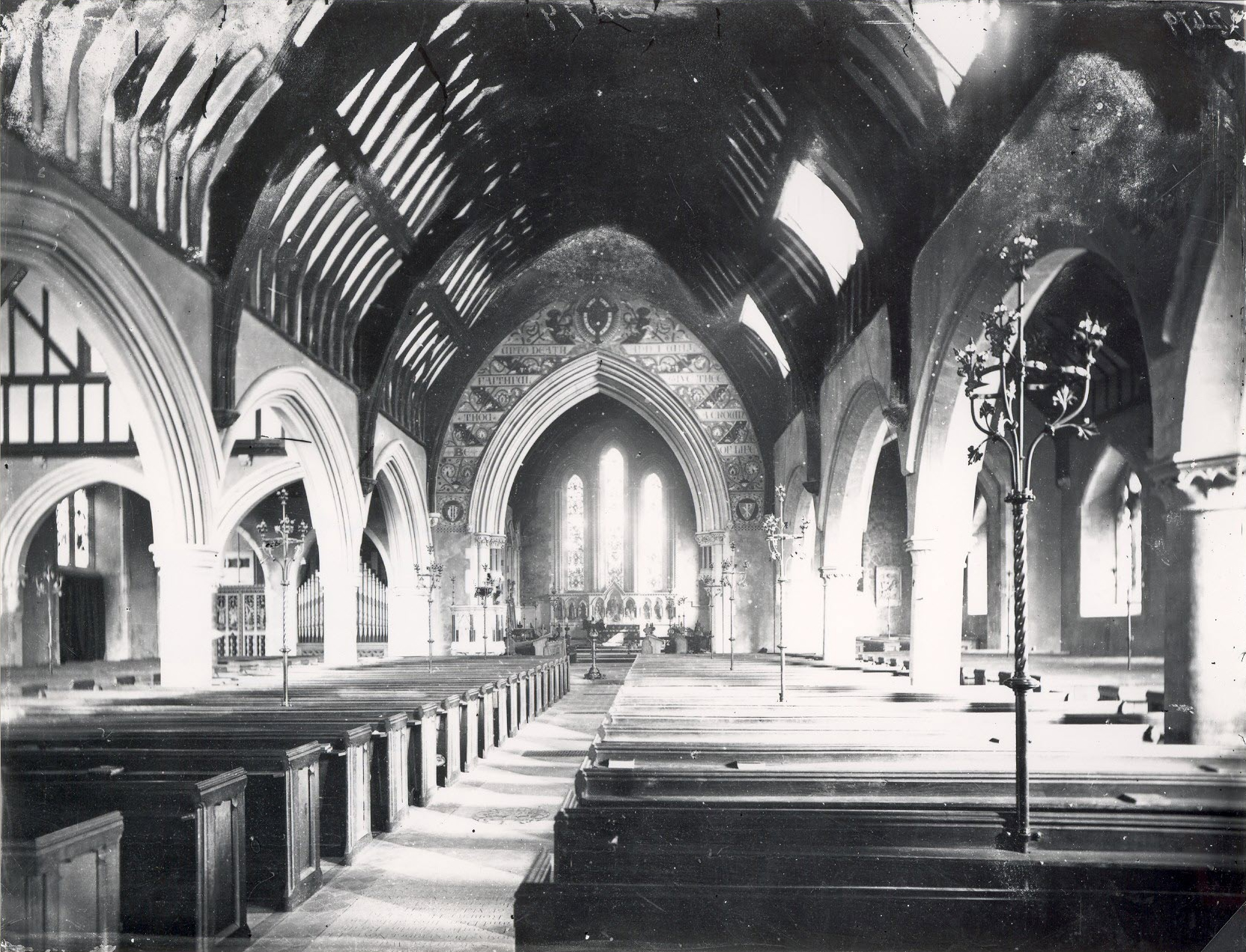 St. Mary's Church, Reading. Interior, looking eastwards along the nave, c. 1875, showing gas lighting and painting around the chancel arch. 1870-1879 : photograph by H. W. Taunt; glass negative, Box 22 No. 2479.